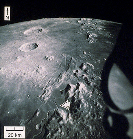 Apollo 15 landing site (marked by white arrow) taken from orbit. Craters Aristillus (upper left) and Autolycus (lower).